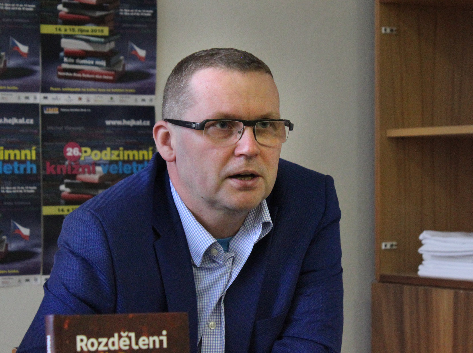 Czech writer Michal Stehlík.